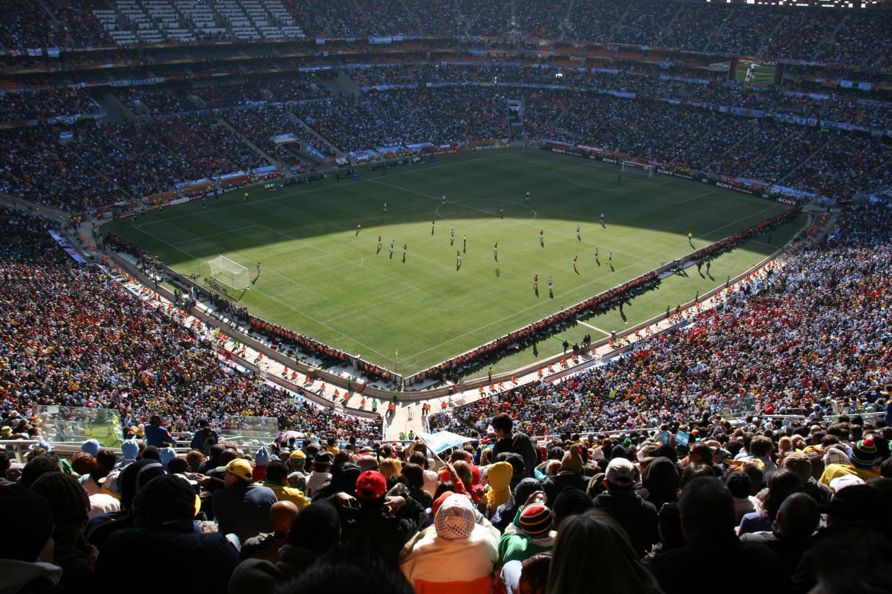 Teams during the game between Argentina and South Korea at FIFA World Cup 2010, 17 June 2010, Soccer City, Johannesburg